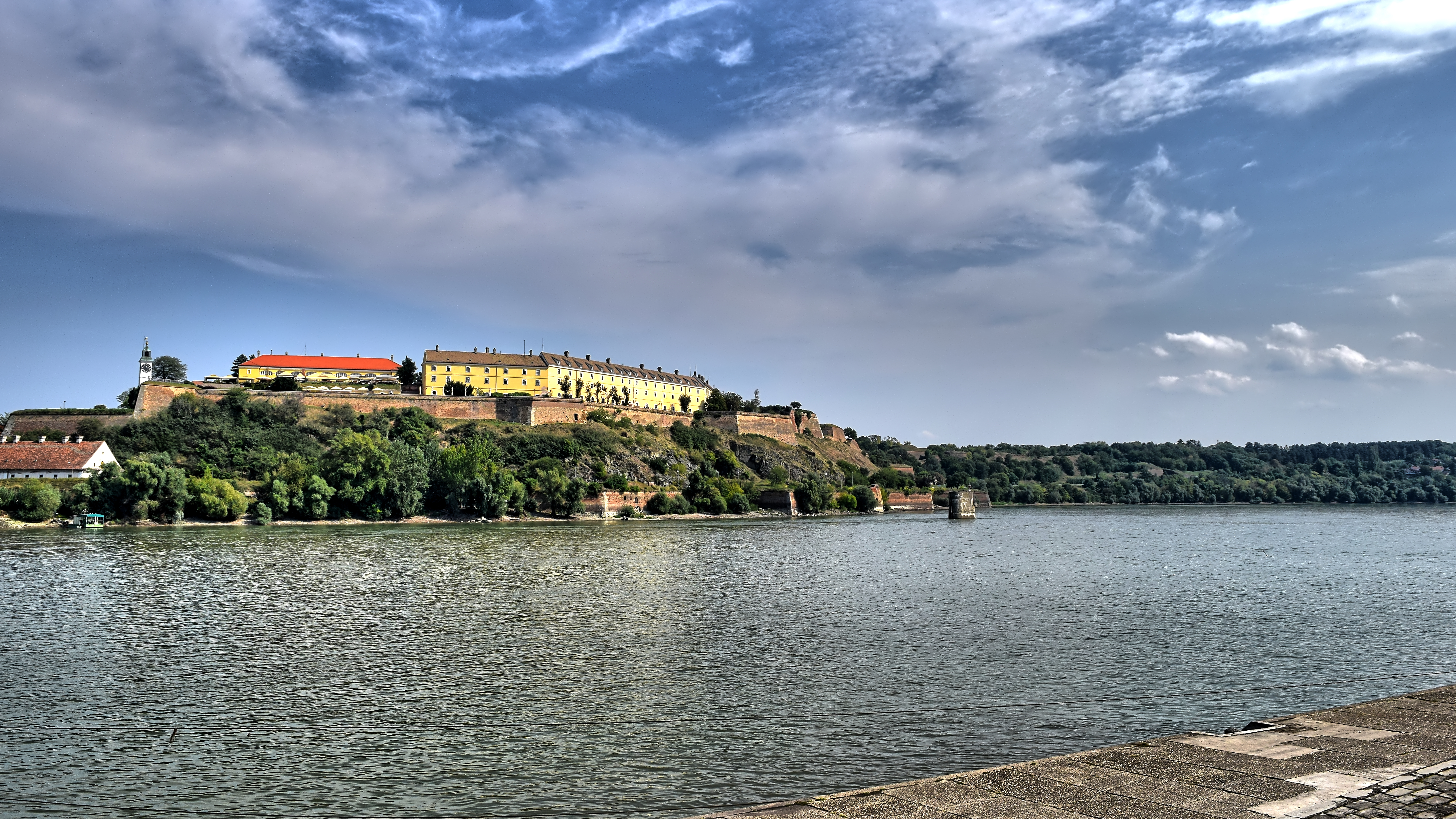 Petrovaradin Fortress (Serbian: Петроварадинска тврђава, Petrovaradinska tvrđava, pronounced [pɛtrɔv̞arǎdiːnskaː tv̞ř̩dʑav̞a], Hungarian: Péterváradi vár) is a fortress in the town of Petrovaradin, itself part of the City of Novi Sad, Serbia. It is located on the right bank of the Danube river. The cornerstone of the present-day southern part of the fortress was laid on 18 October 1692 by Charles Eugène de Croÿ. Petrovaradin Fortress has many underground tunnels as well as 16 km of uncollapsed underground countermine system. In 1991 Petrovaradin Fortress was added to Spatial Cultural-Historical Units of Great Importance list, and it is protected by the Republic of Serbia. Srpskohrvatski / српскохрватски: Petrovaradinska tvrđava se nalazi u Novom Sadu, Srbiji, u mestu Petrovaradin na obali Dunava i obroncima Fruške gore. Kamen temeljac je položio austrijski princ Kroj. Izgradnja tvrđave, po projektu francuskog vojnog arhitekte Sebastijana Vobana, trajala je punih 88 godina, sve do 1780. Izgradnju su vodili austrijski vojni arhitekti. Tvrđava je izgrađena na 112 hektara, na uzvišenju koje dominira okolinom. Bila je neosvojiva za ondašnju ratnu tehniku i već tada je dobila naziv Gibraltar na Dunavu. Kao isključivo vojni objekat, Petrovaradinska tvrđava služila je sve do 1948. godine. Pod zaštitu države stavljena je 1951. godine, od kada predstavlja kulturni i turistički objekat. Pored muzeja, arhiva i niza umetničkih ateljea, poslednjih godina na Petrovaradinskoj tvrđavi održava se muzički festival "Egzit".